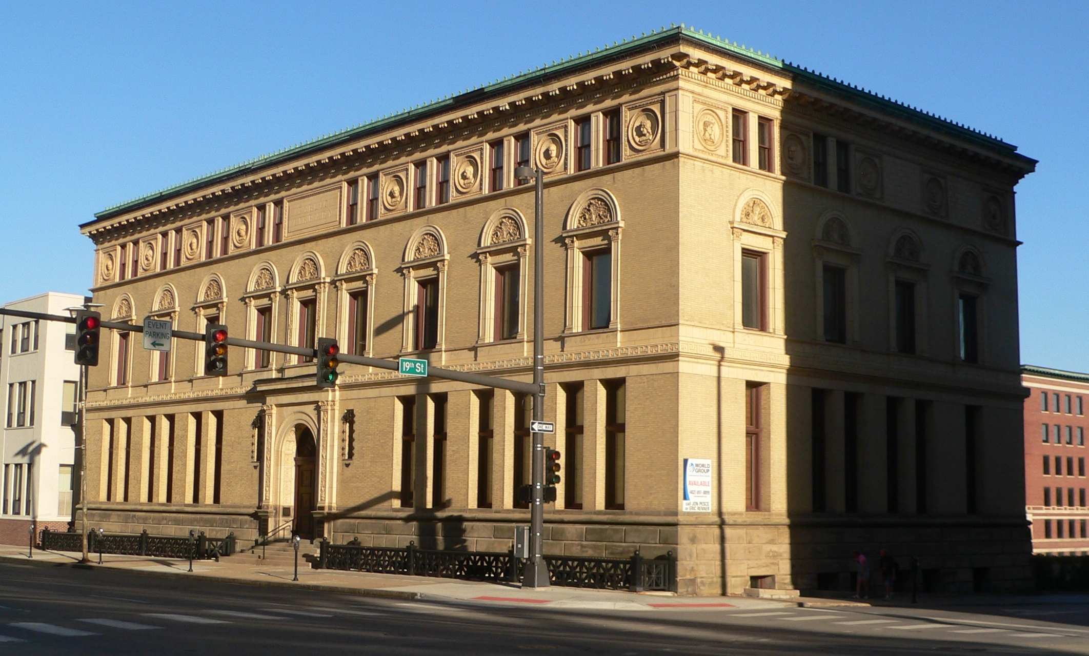 Omaha Public Library building, located at 1823 Harney Street (southeast corner of 19th and Harney) in Omaha, Nebraska; seen from the northwest. The sunlit north side of the library faces Harney; the half-shaded west side faces 19th.